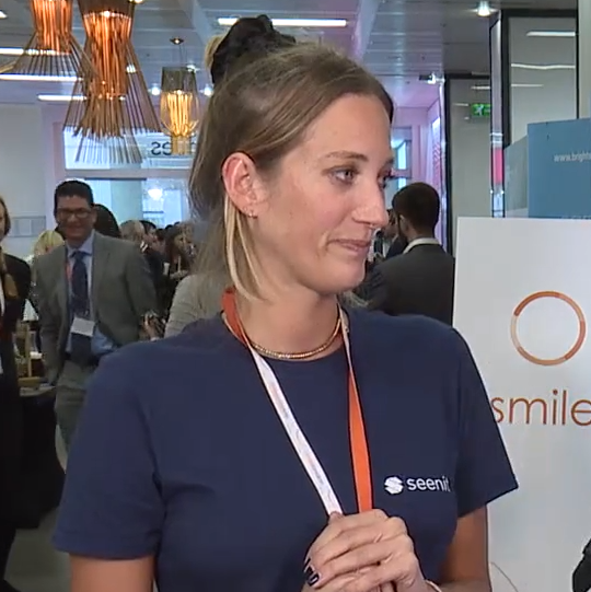 This is an openly licensed video - adding the tags in progress for Emily Forbes